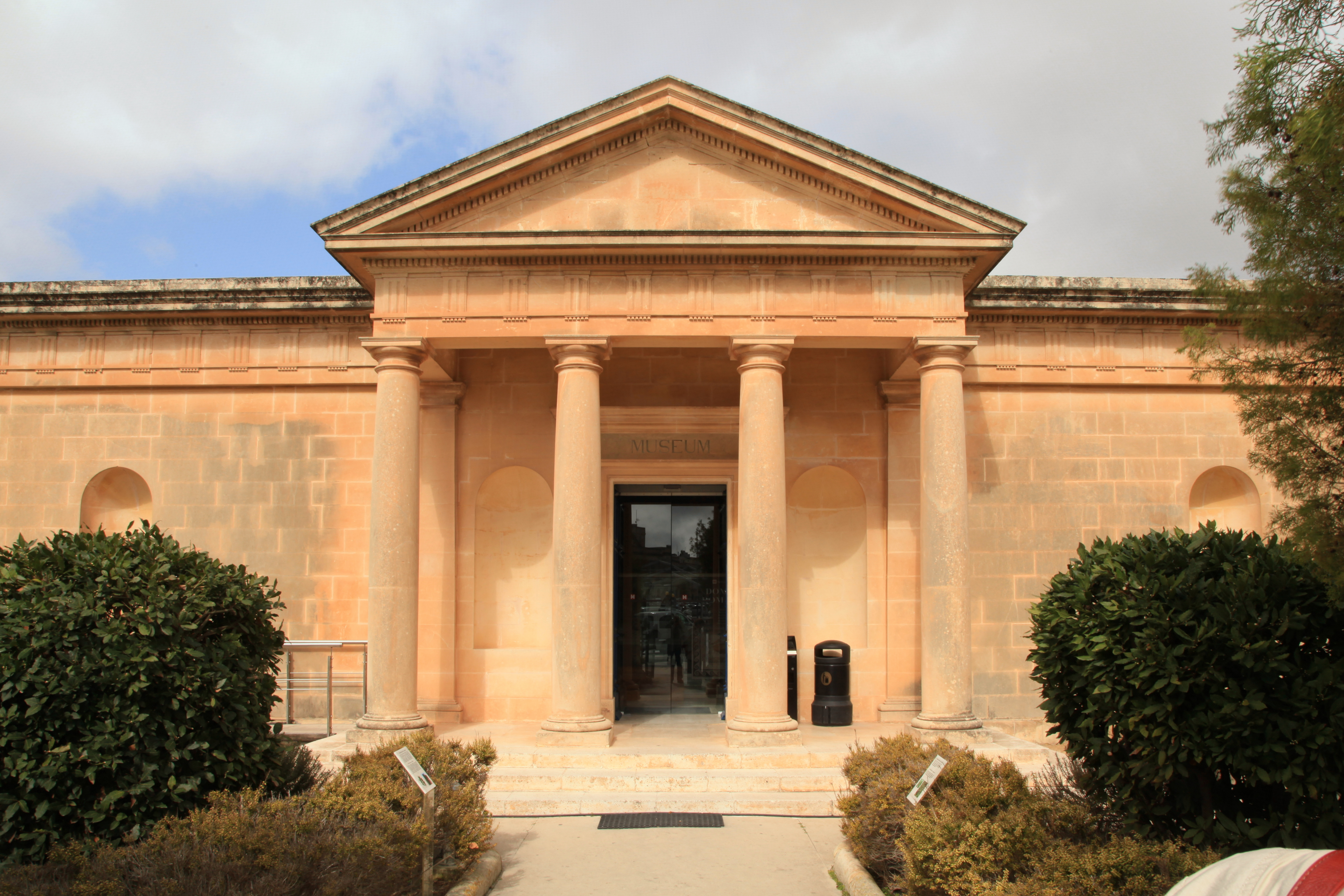 Domus Romana, Wesgħa tal-Mużew in Mdina, Malta